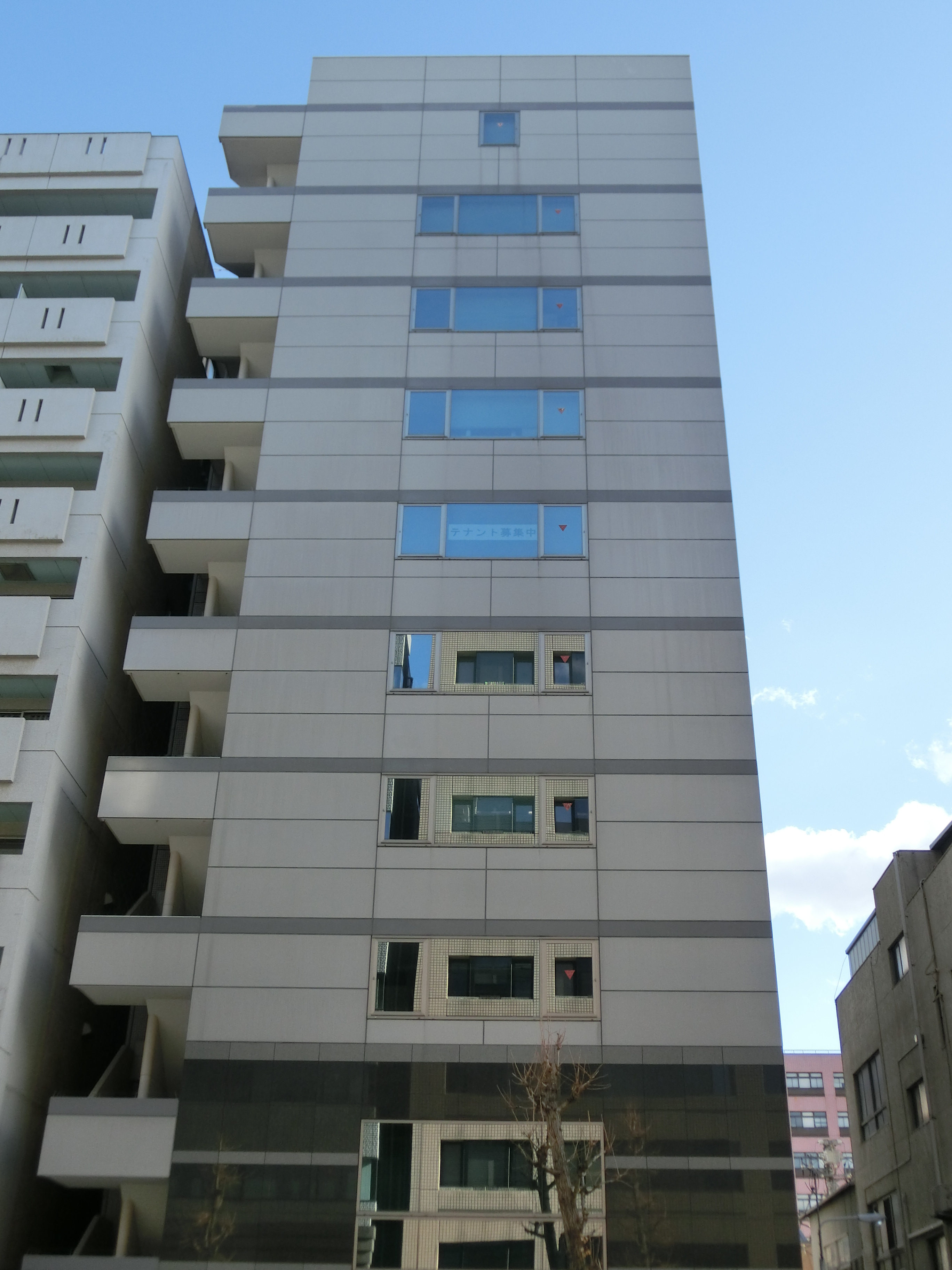 Chikuma Shobo Head Office